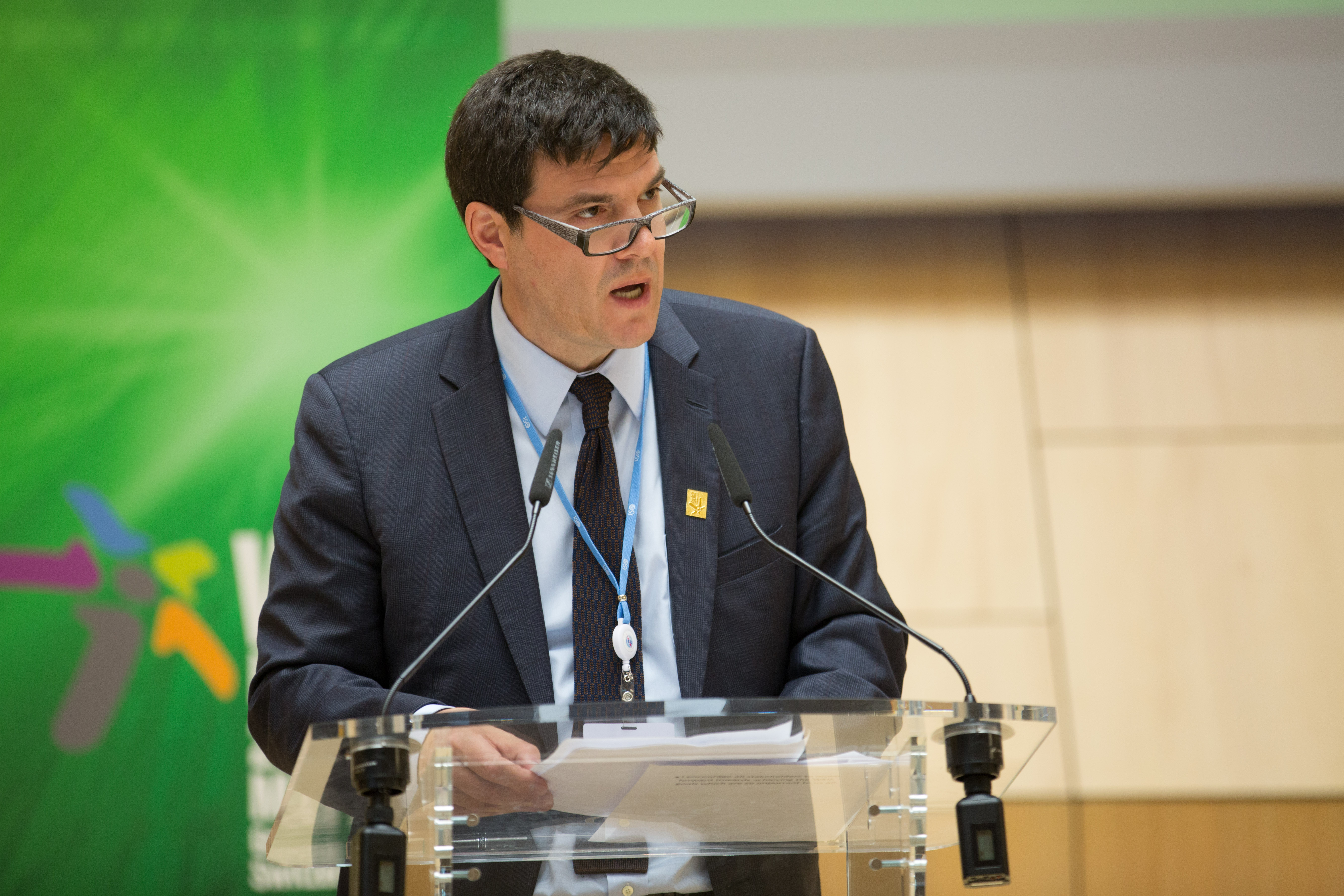 High Level Policy Statements. Chile – H. E. Mr Andrés Gómez-Lobo, Minister, Ministry of Transport and Telecommunications. ©ITU/I.Wood